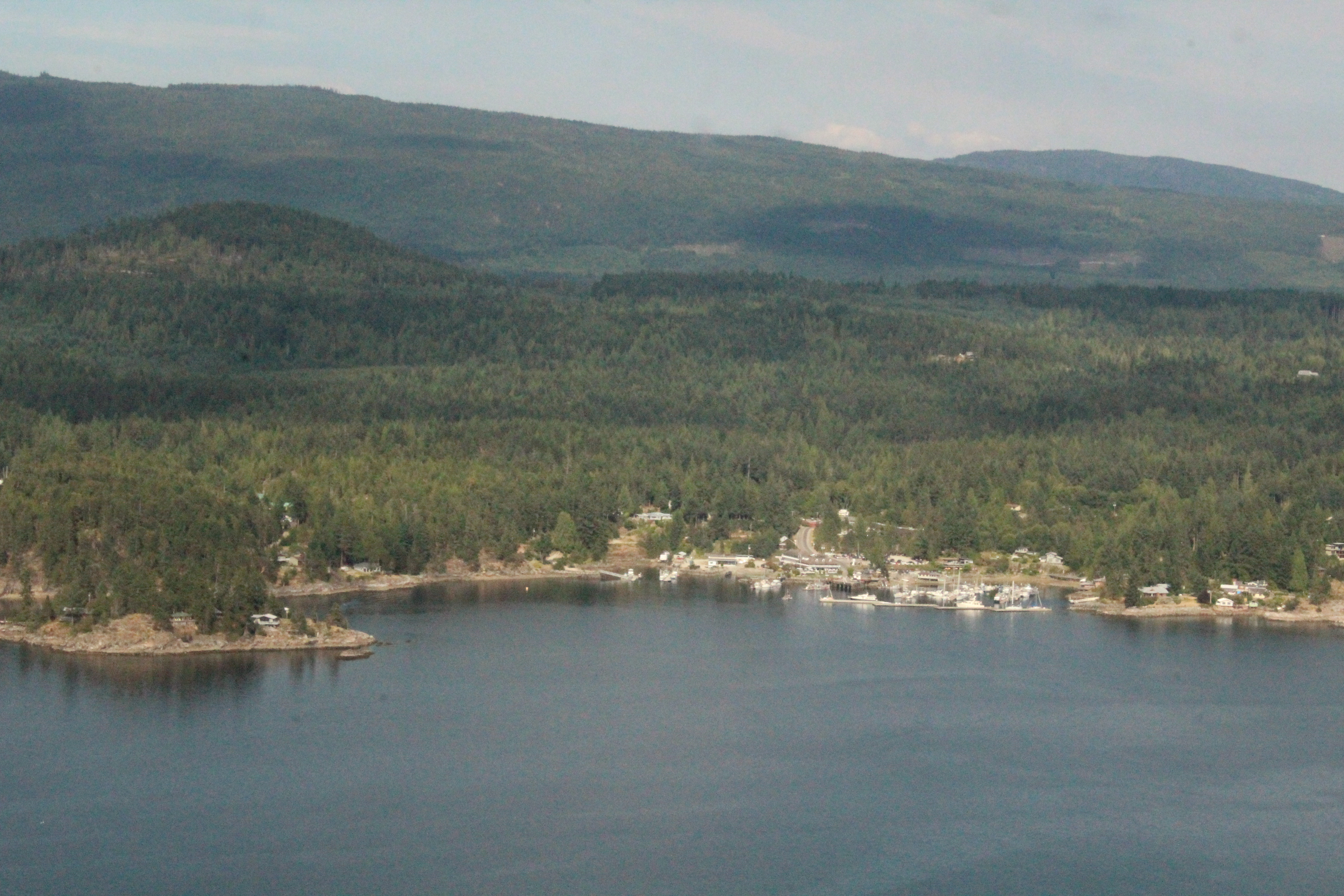 Lund, British Columbia, from a seaplane